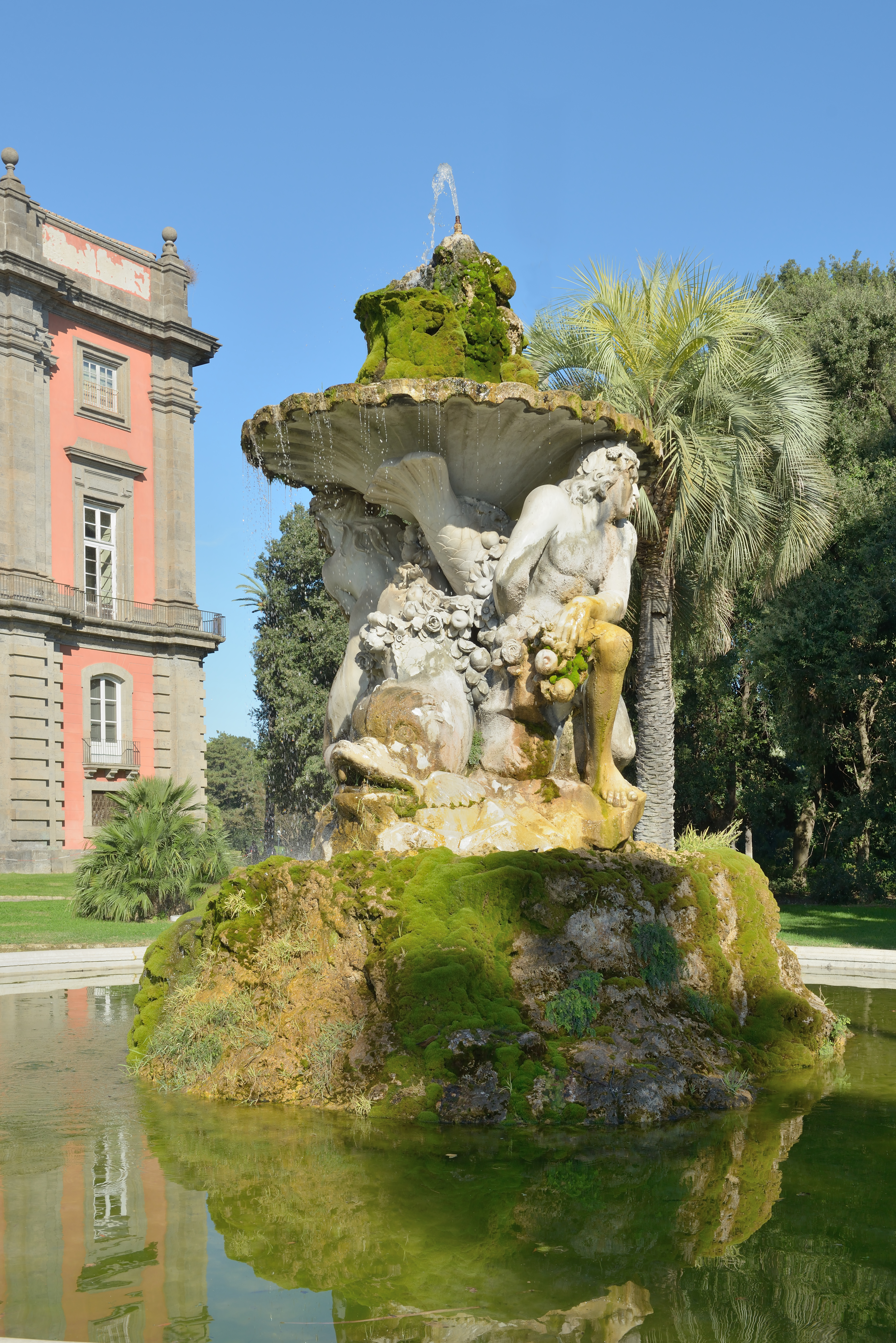 Belvedere fountain of the Museo di Capodimonte in Naples.